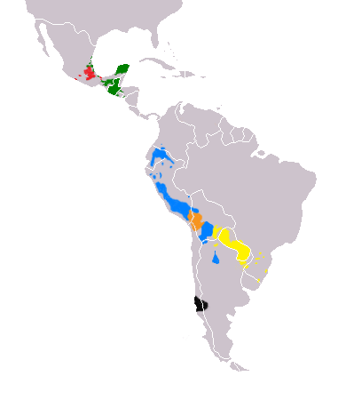 Map of present distribution areas of most widely spoken pre-contact languages in Latin America. Colours meaning: Quechua Guarani Aymara Nahuatl Lenguas Mayas Mapudungún